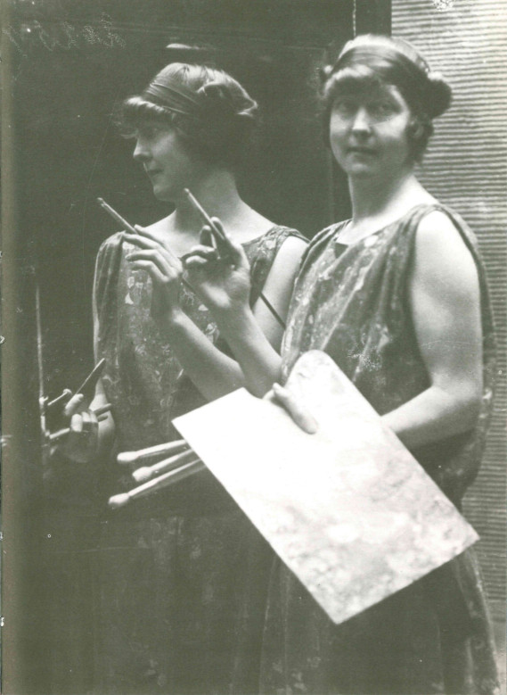 Elisabeth Chaplin